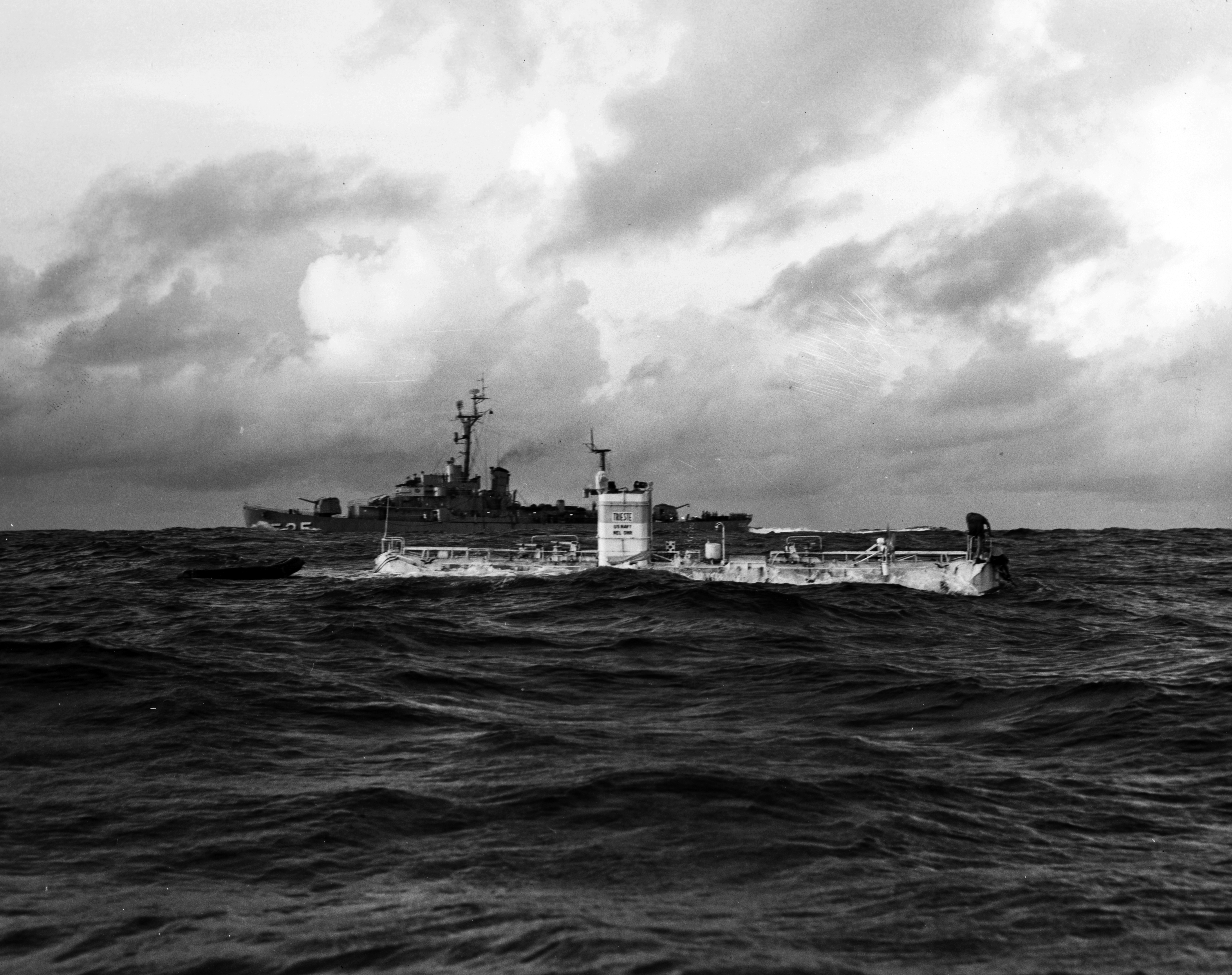 The U.S. Navy bathyscaphe Trieste, just before her record dive to the bottom of the Marianas Trench, 23 January 1960. The waves were were about 1,5 to 1,8 m high when scientist Jacques Piccard and Lt. Don Walsh, USN, and Piccard boarded from the rubber raft attached to the bathyscaphe. The destroyer escort USS Lewis (DE-535) is steaming by in the background.